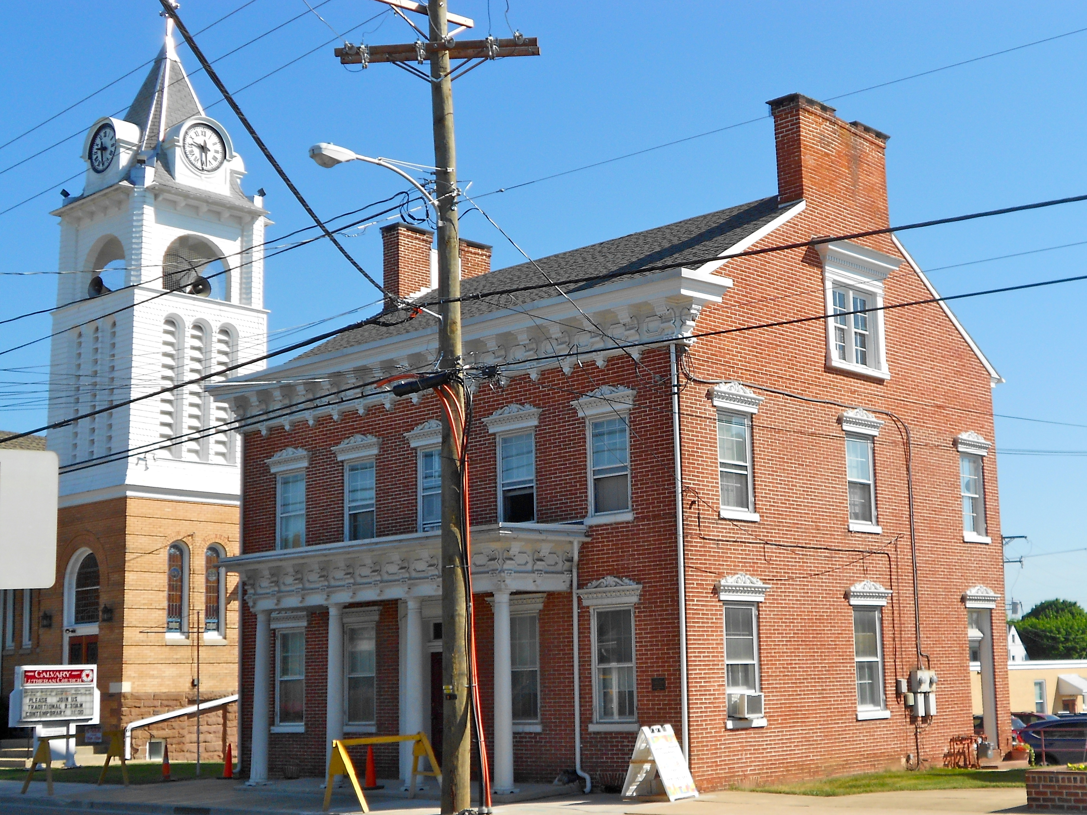 Englehart Melchinger House, listed on the National Register of Historic Places on August 12, 1992, at 5 North Main Street, Dover, Pennsylvania. Located next to Calvary Lutheran Church, the house serves as a parish house.